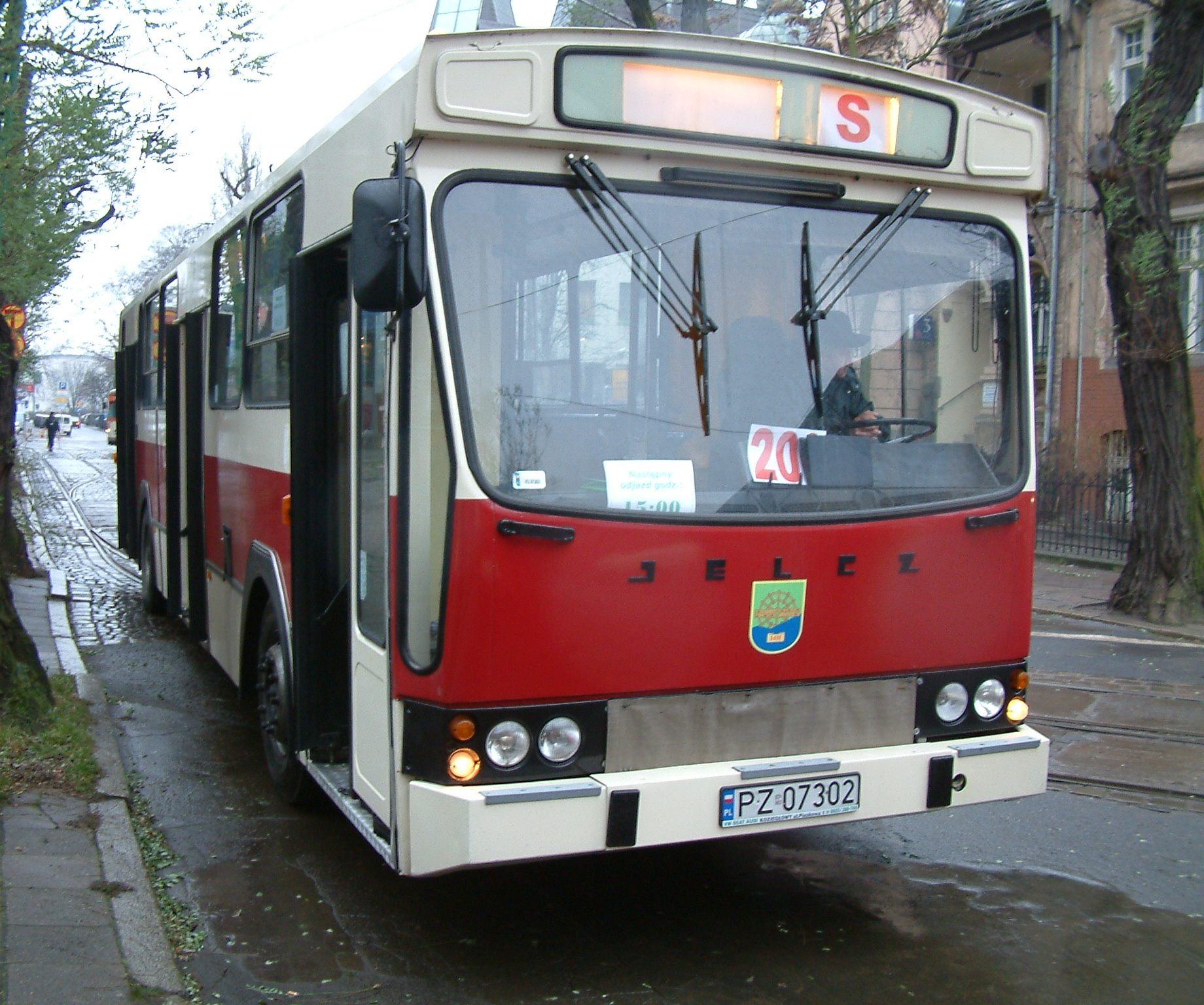 Jelcz PR110M (#1) bus from Czerwonak to Poznań, Poland. Built 1991. Przedsiębiorstwo Wielobranżowe 'Transkom' in Koziegłowy operator.